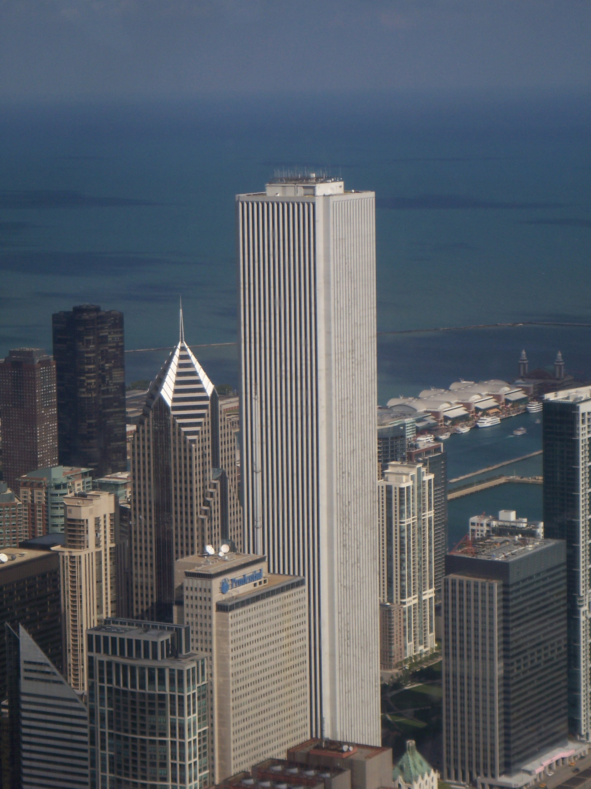 The Aon Center from the Sears Tower Skydeck.